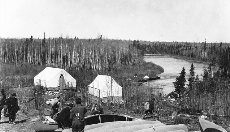 Photograph, Scow-men preparing to leave Pagwa, Revillon Frères, ON, 1920-30, Samuel Herbert Coward, Silver salts on paper mounted on paper - Gelatin silver process - 7 x 13 cm